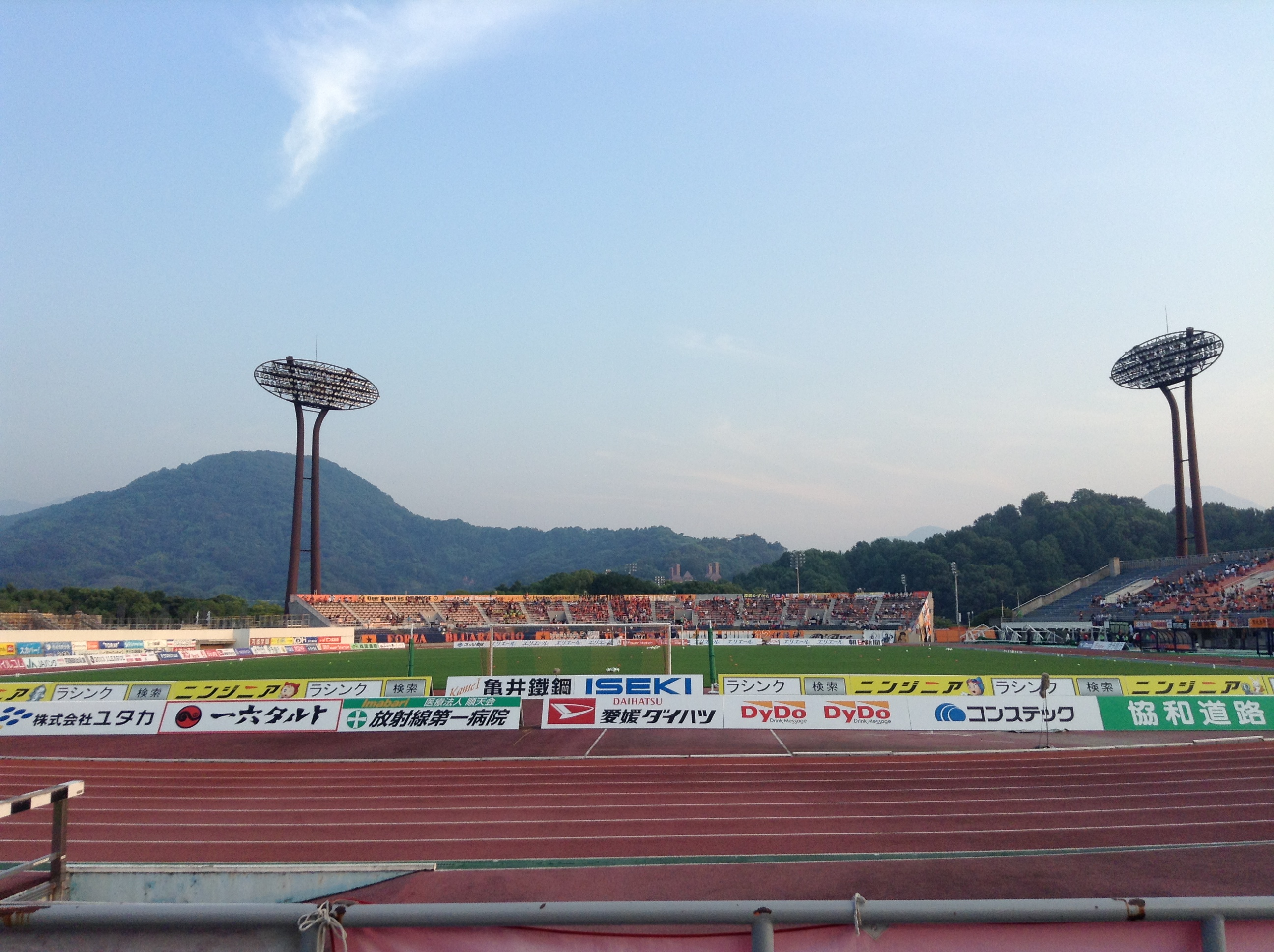 J. League Division 2 , Ehime FC vs Kyoto Sanga F.C. in Ningineer Stadium, 11 August, 2013.